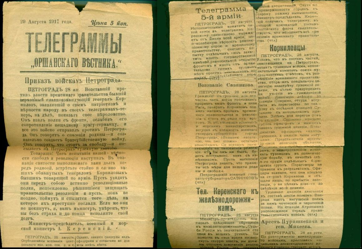 Reaction of massmedia to Kornilov's Coup